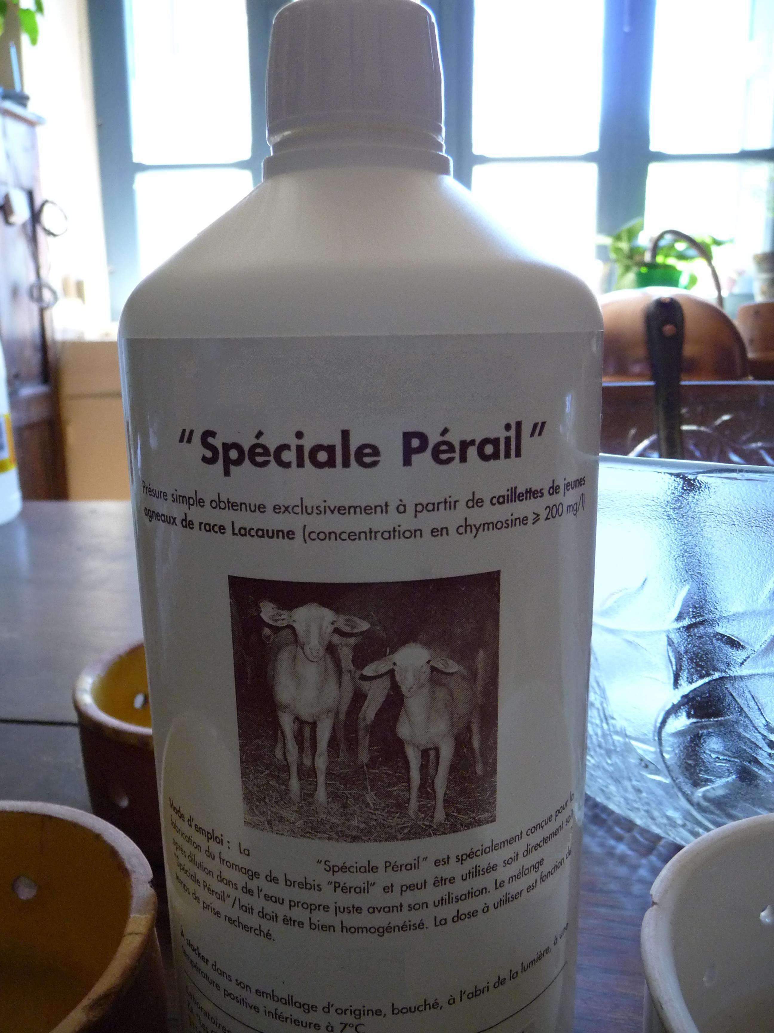 rennet